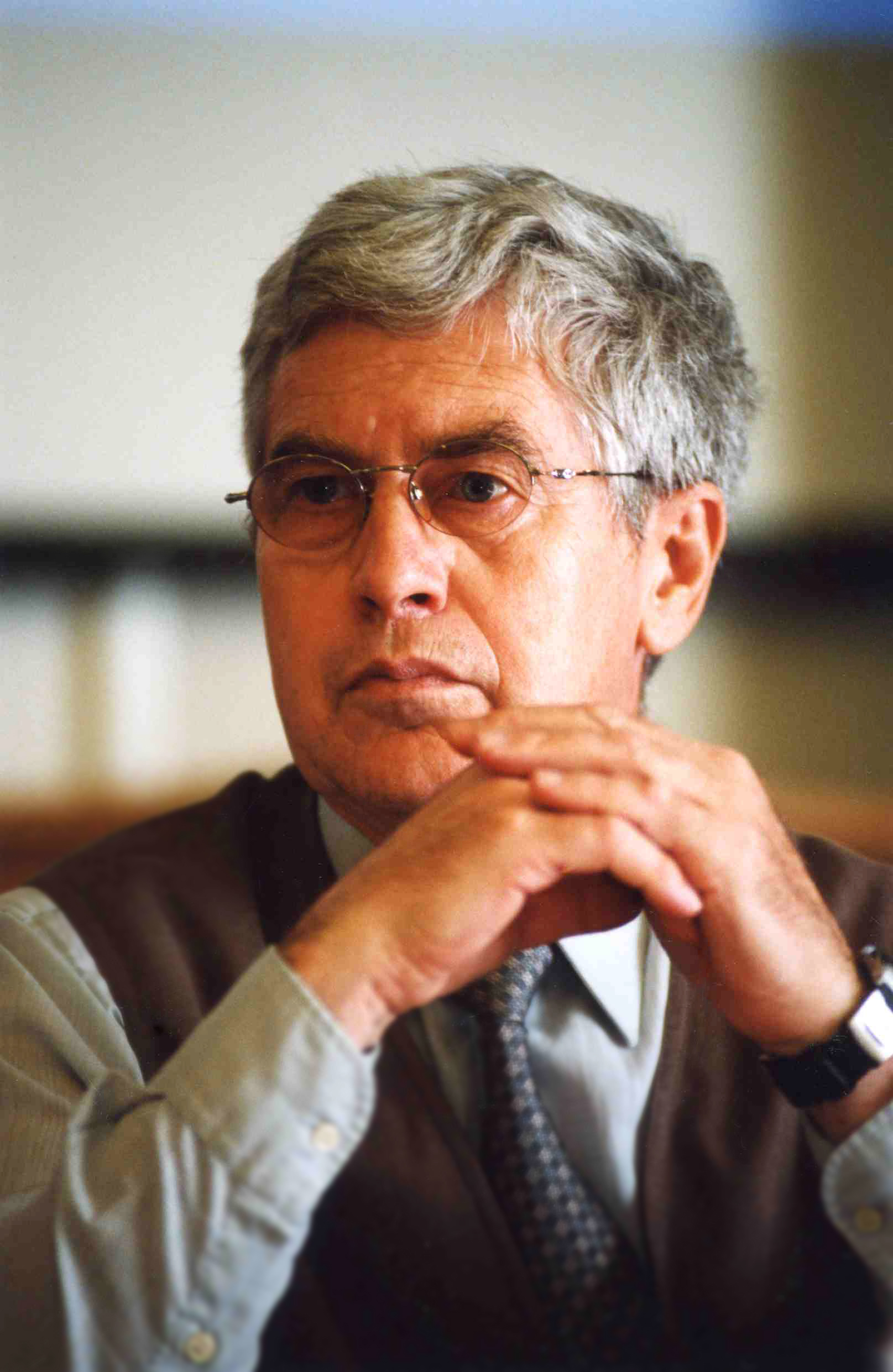 Jiří Grygar (Czech: [ˈjɪr̝iː ˈɡrɪɡar] (About this sound listen); March 17, 1936, in Heinersdorf, Germany, now Dziewiętlice, Poland) is a Czech astronomer, popularizer of science and Kalinga Prize (1996) laureate.